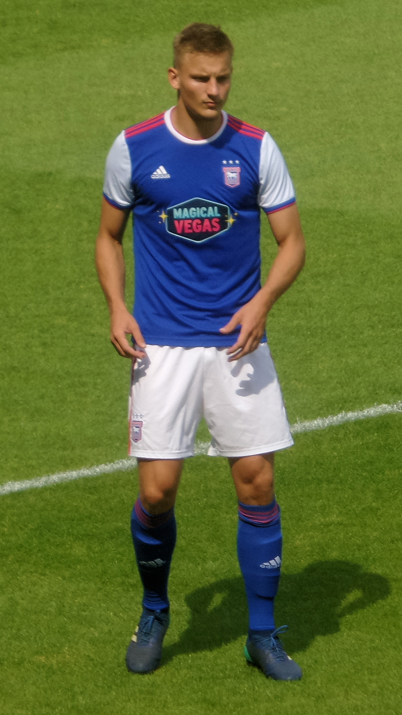 Luke Woolfenden playing for Ipswich Town at Barnet on 21 July 2018